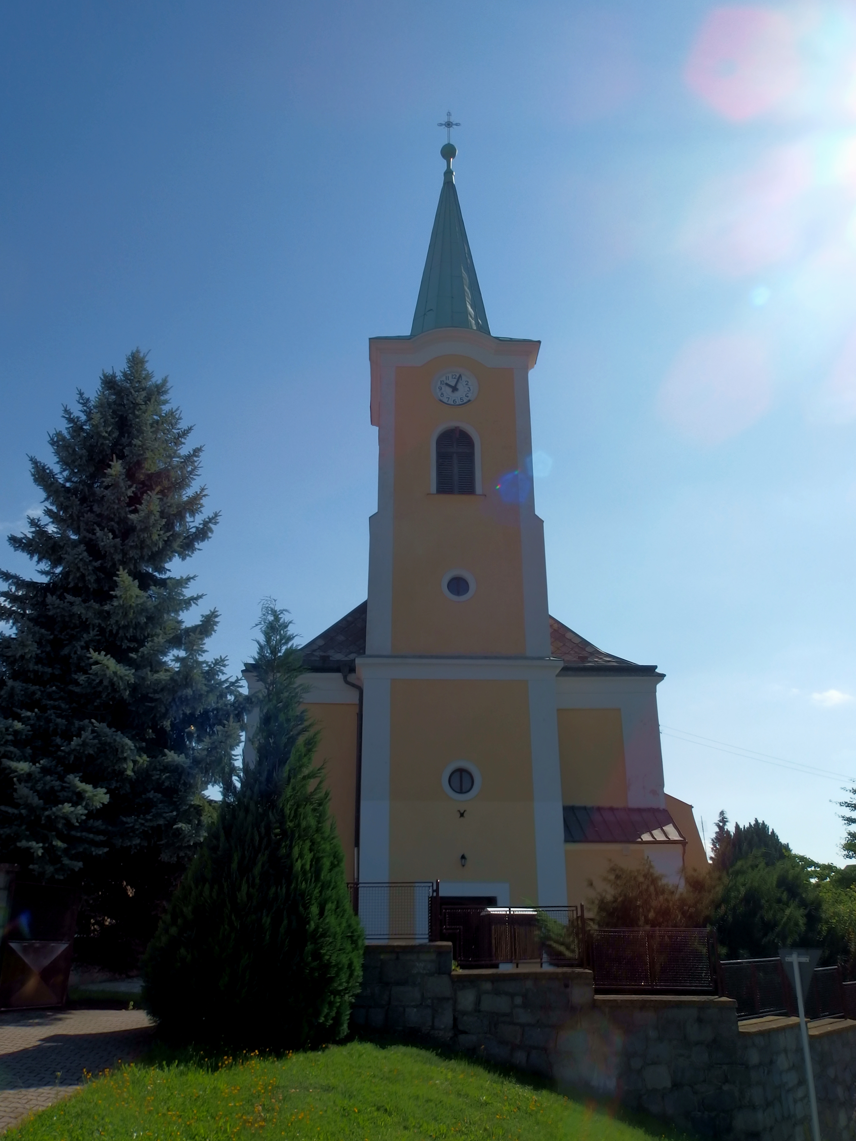 Slavkov, Opava District, Czech Republic.